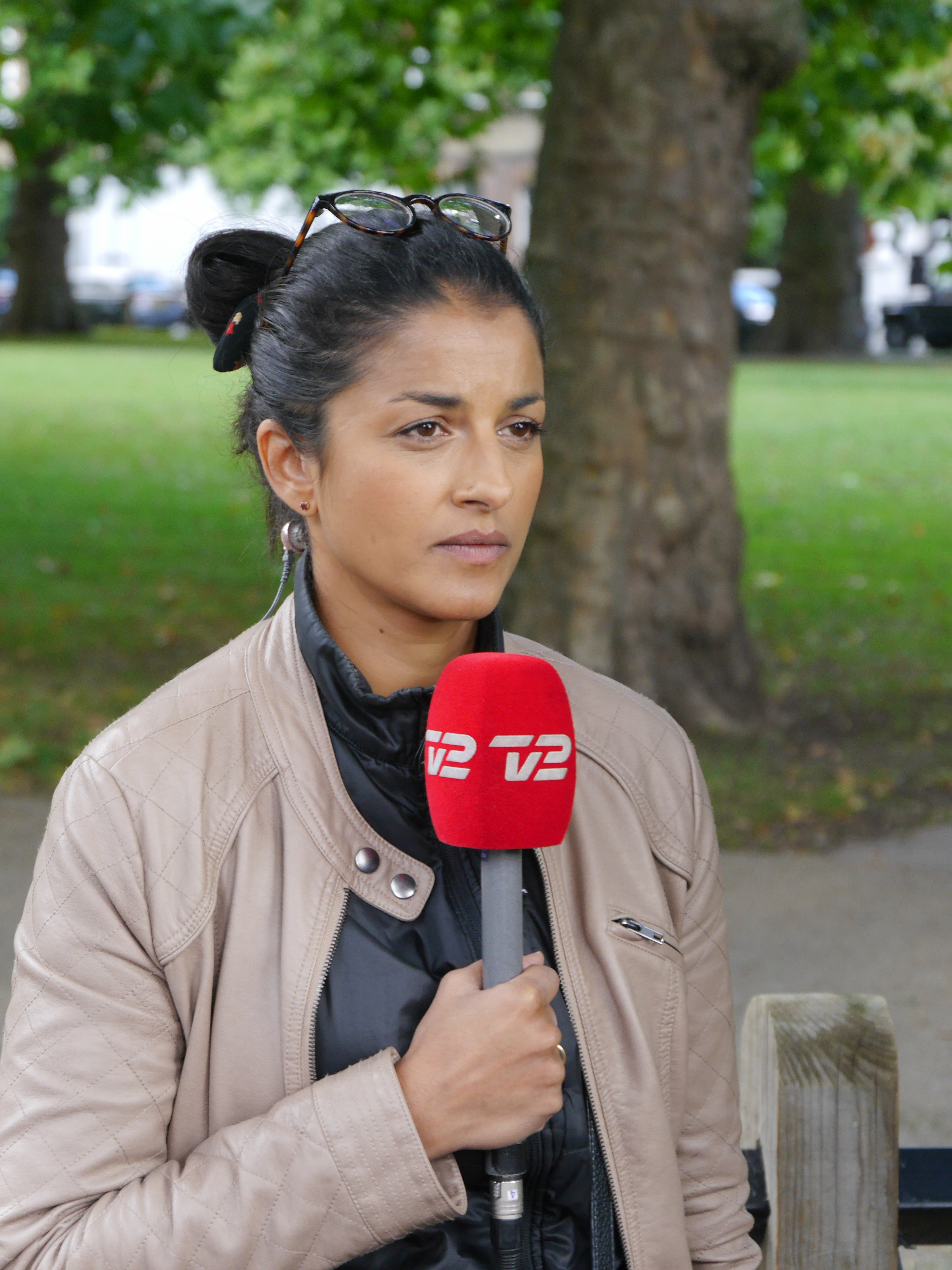 2017 Parsons Green bombing. Reporter Divya Das, TV 2, Denmark.